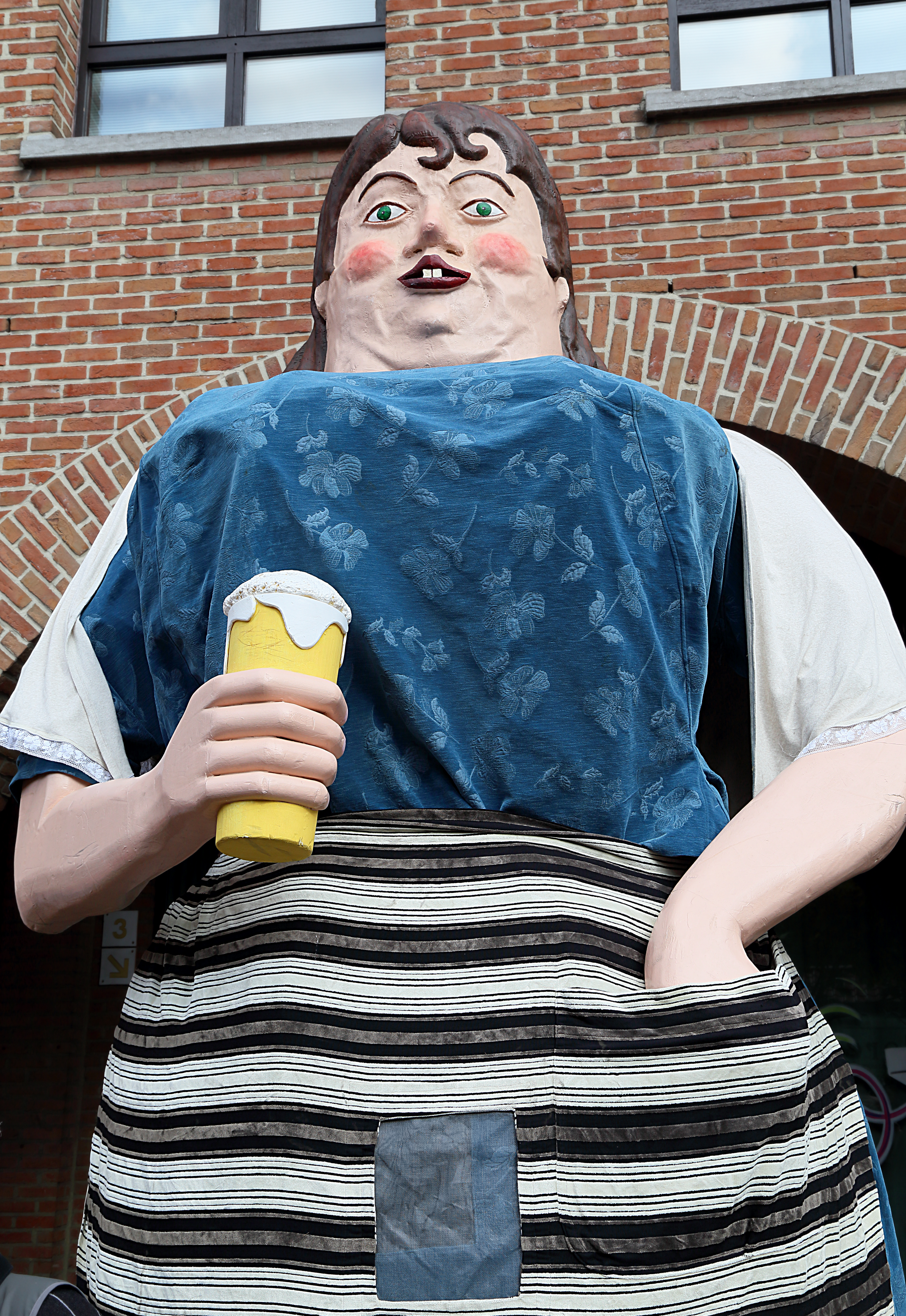 La grosse Adrienne (The big Adrienne), giant of Mouscron (Belgium). Creation: 2010. Weight: 100 kgs. Height: 4,30 m. Picture taken in Mouscron, Belgium.